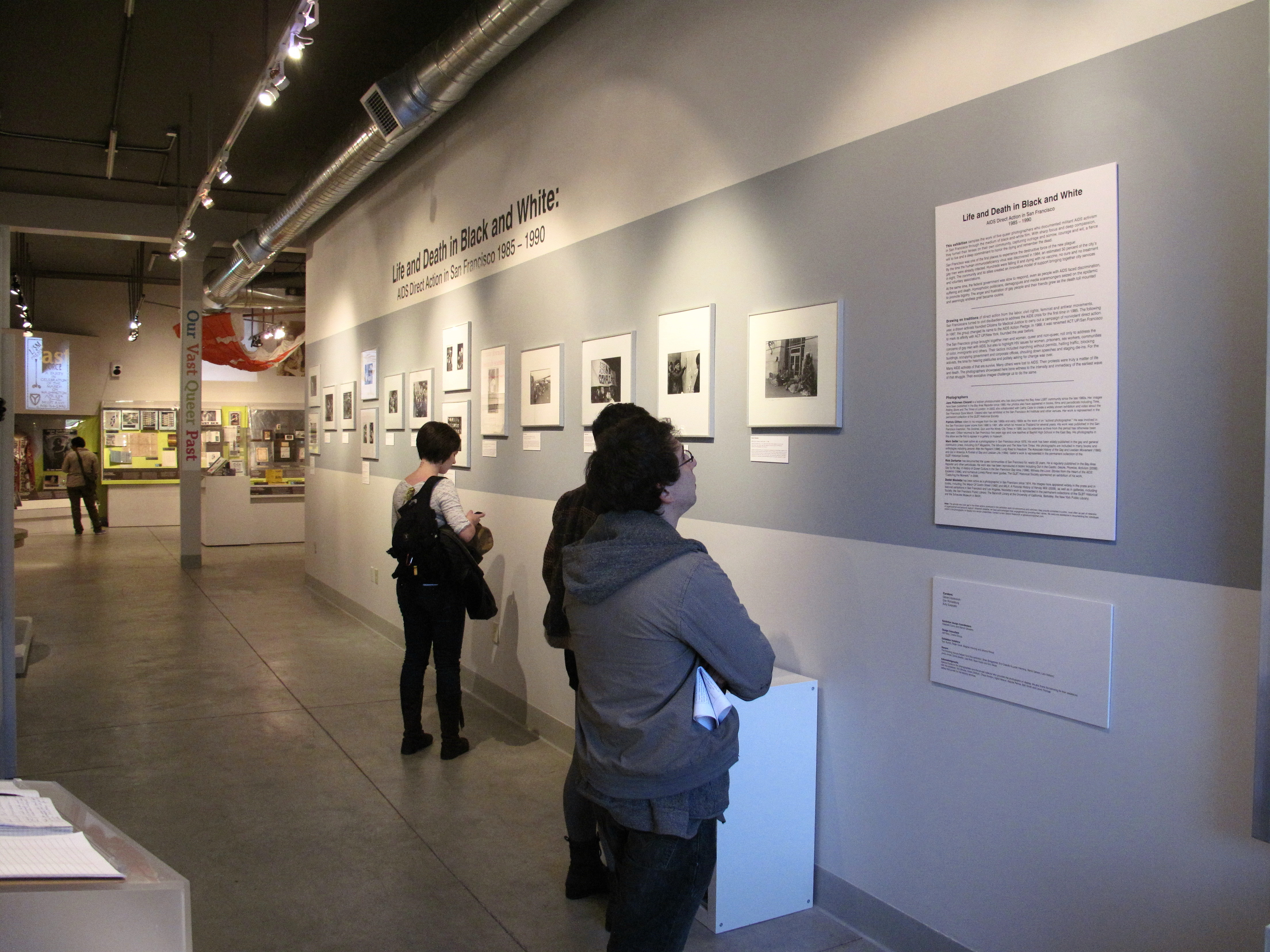 Visitors to the Main Gallery of The GLBT History Museum in San Francisco view "Life and Death in Black and White: AIDS Direct Action in San Francisco, 1985–1990," an exhibition of photography open March 2012 through July 2012.